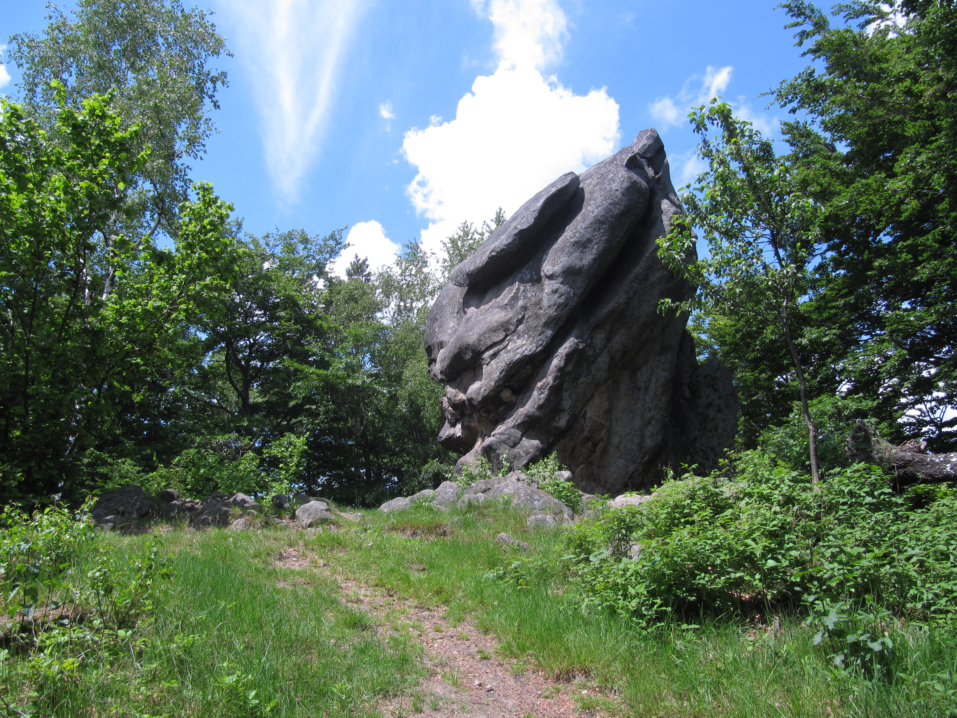 Hostýnské vrchy, Skalný (708 m), Czech Republic.